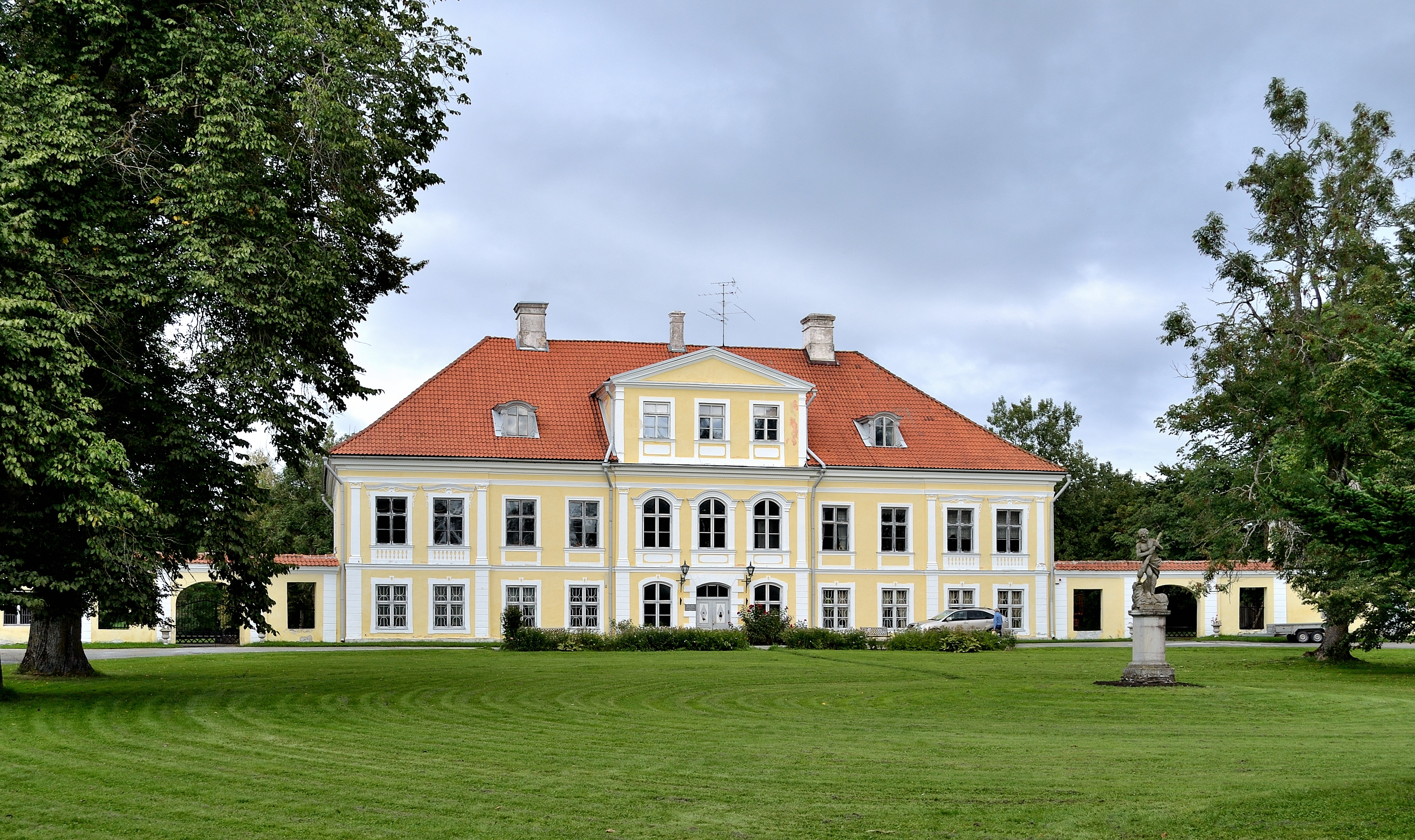 Saue manor main building, 18. century This photograph was taken with a Nikon D3100